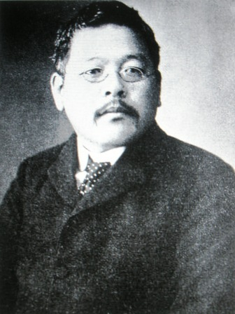 Tamura Naomi (田村直臣, 1858-1935), Japanese theologian and educationalist; propagator of Sunday schools